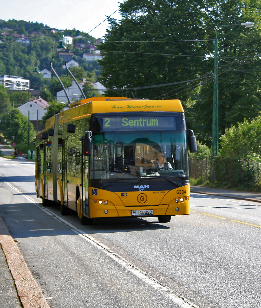 A trolleybus leaving a stop by Gaia Trafikk's headquarters in Bergen, Norway.